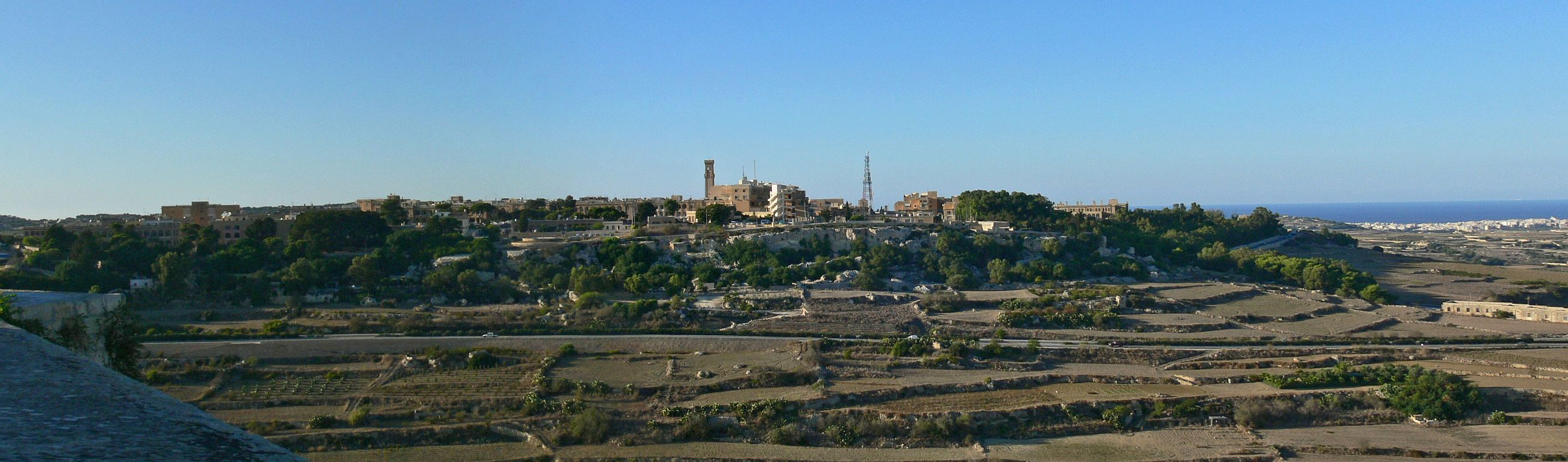 Panoramic view of Mtarfa, Malta, seen from the walls of Mdina